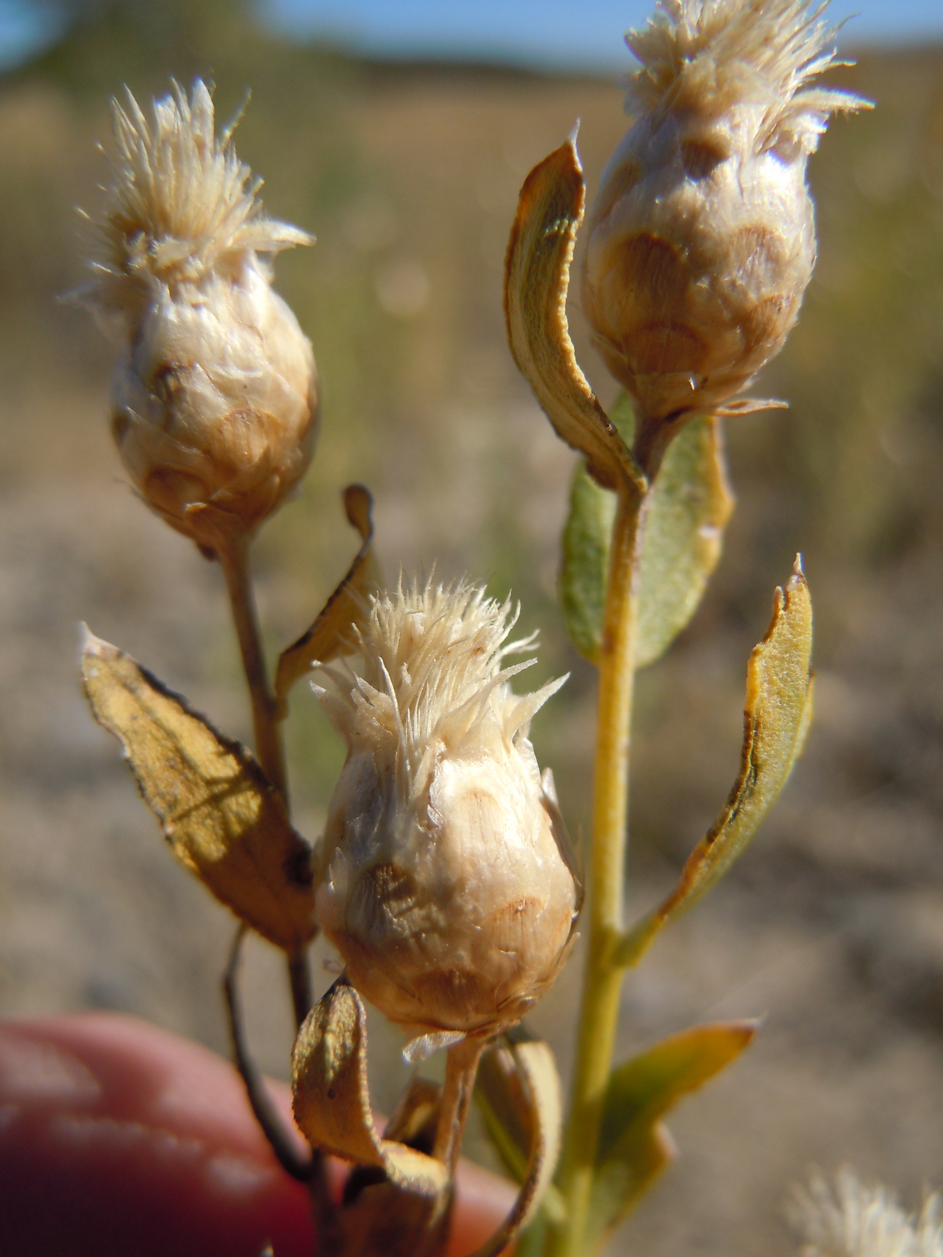 The broad papery involucral bracts and the long pappus segments are characteristic of this rhizomatous species.